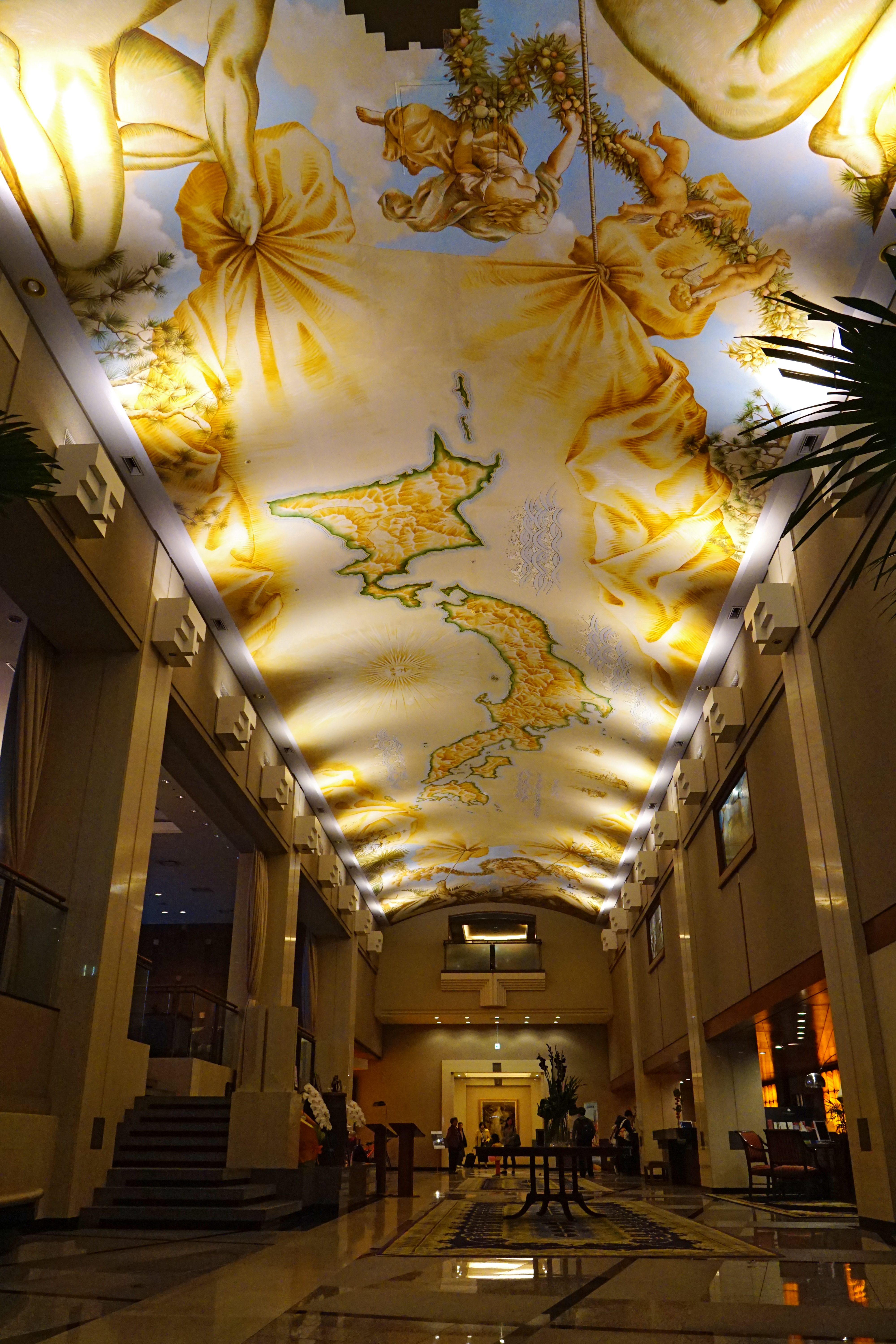 Premier Hotel-TSUBAKI-Sapporo in Sapporo, Hokkaido prefecture, Japan.